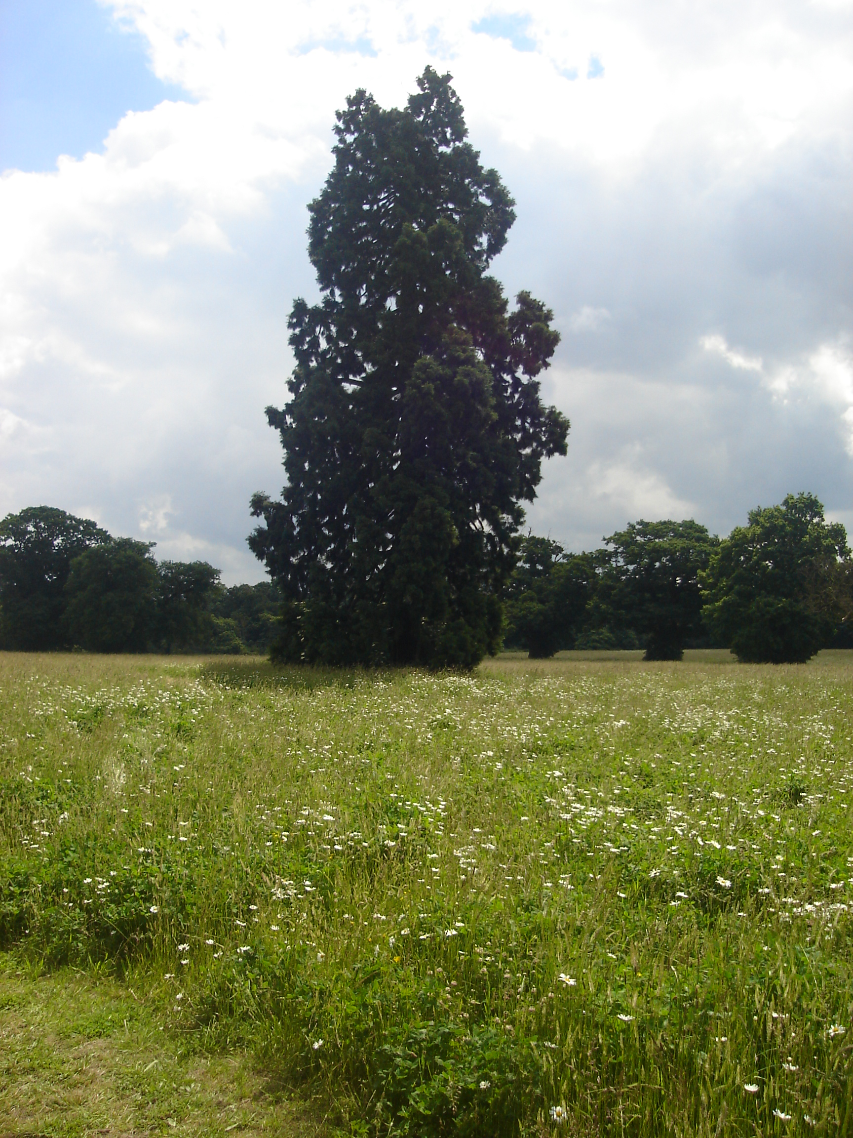 Picture of Wellingtonia at Catton Park, Old Catton, Norwich, Norfolk